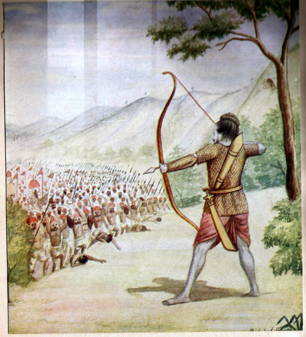 Seeing the plight of Shurpanakhi, the enraged demon army of Khara and Dushana came and attacked Rama. Single handedly, Rama destroyed the complete force of demons.